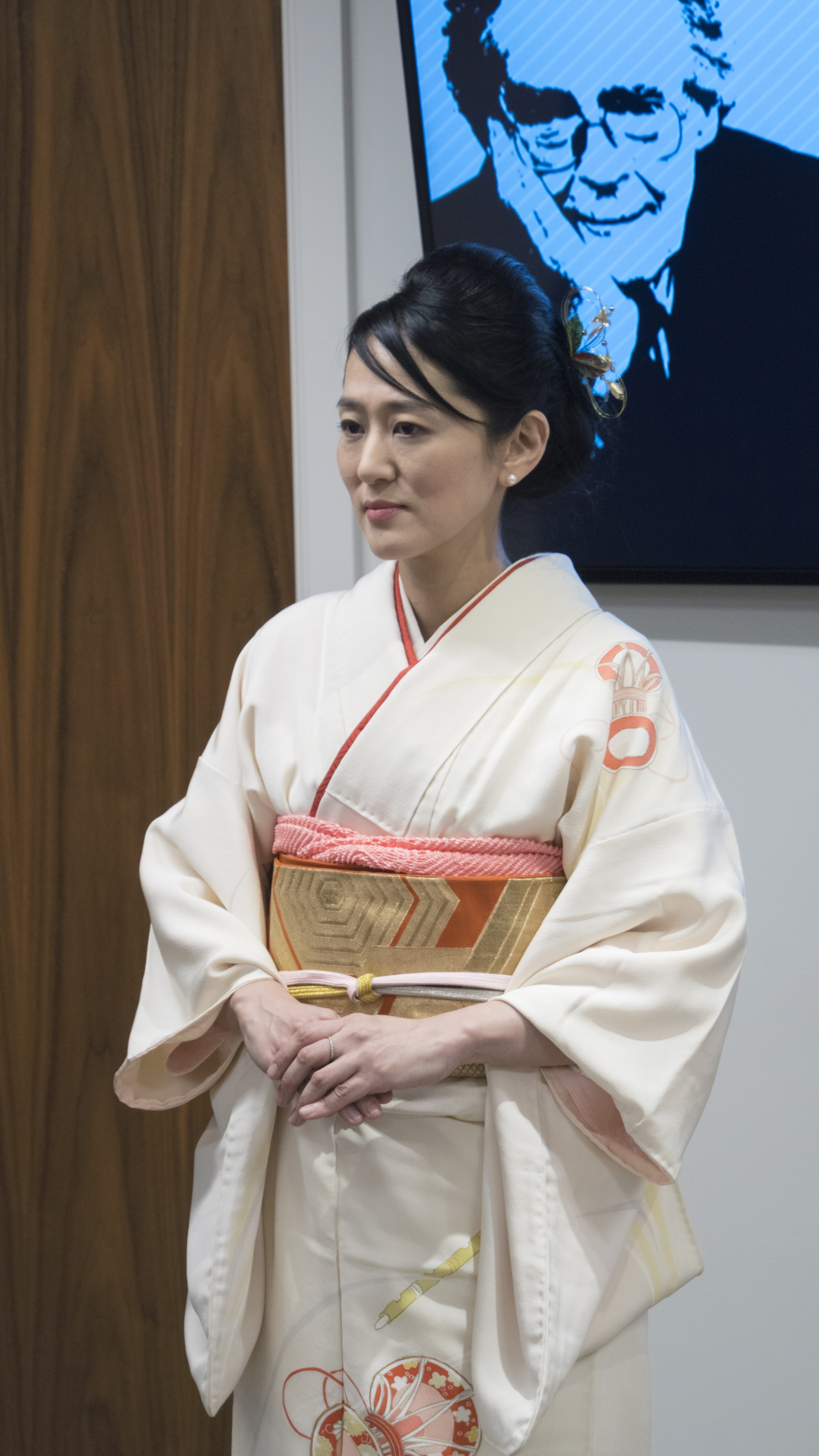 Riko Muranaka receiving the 2017 John Maddox award at the Royal Pharmaceutical Society.